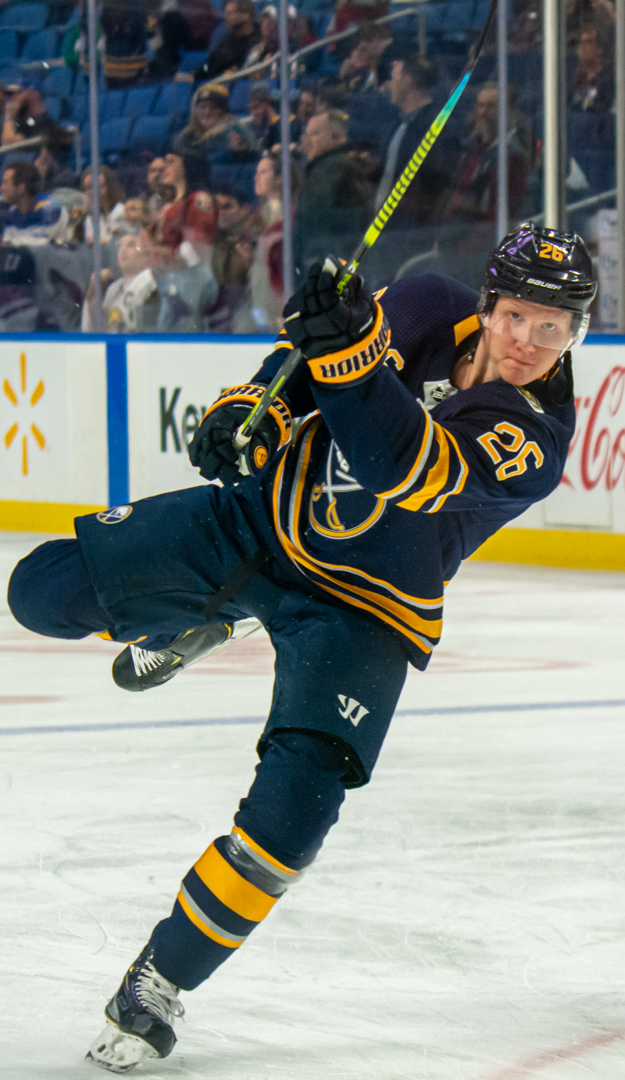 A photo of Rasmus Dahlin taken during warm-ups prior to a Buffalo Sabres vs Arizona Coyotes NHL hockey game on October 28, 2019